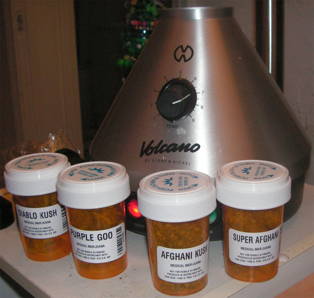 Medical Marijuana surrounding a vaporizer for healthy intake of the medicine.